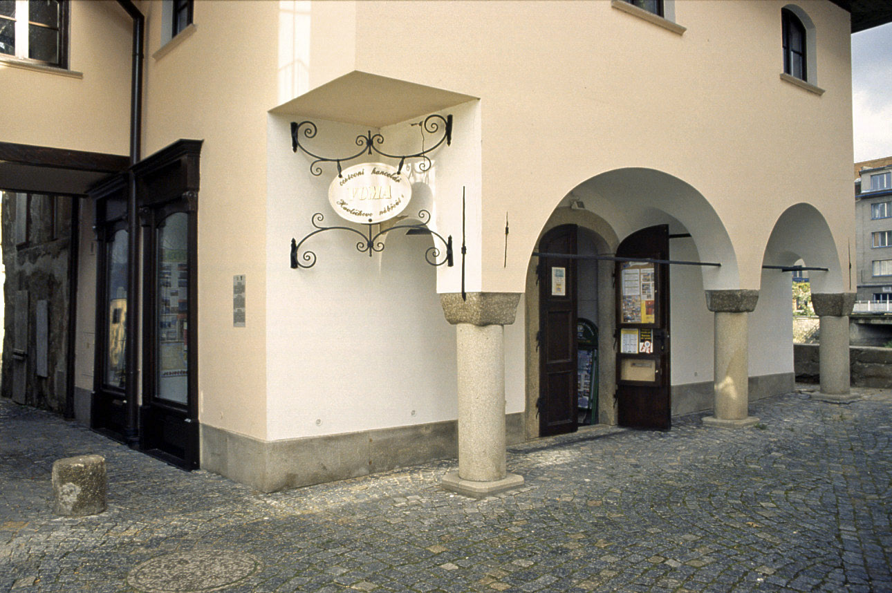 'entry' to the Jewish quarter